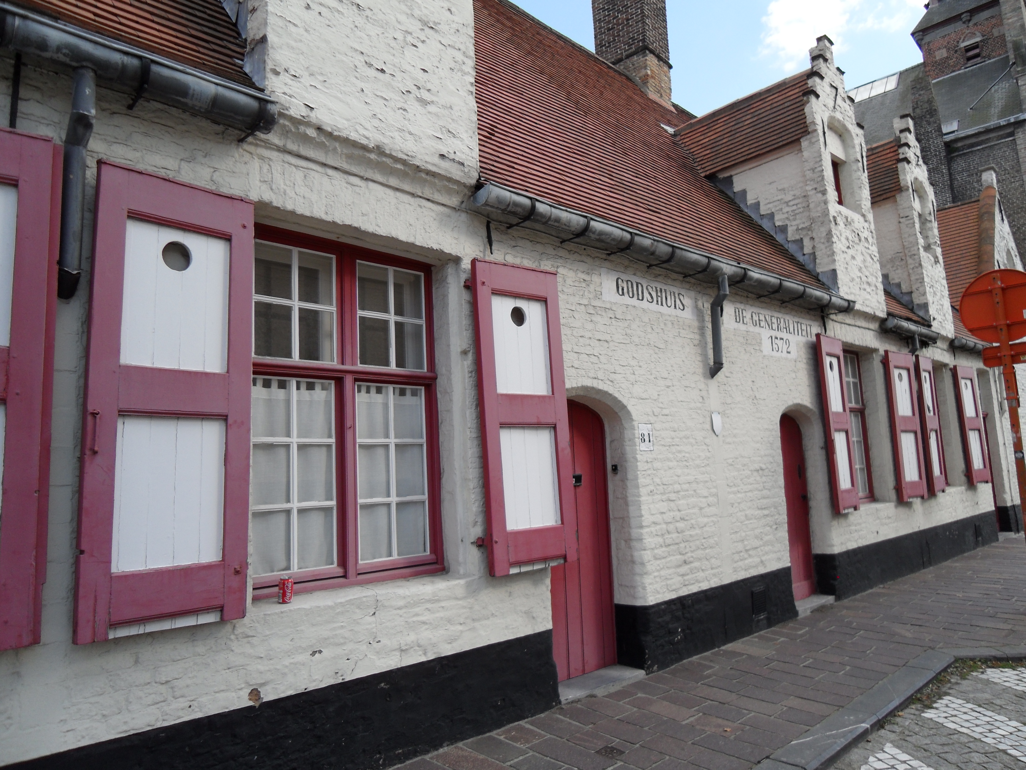 Generaliteit